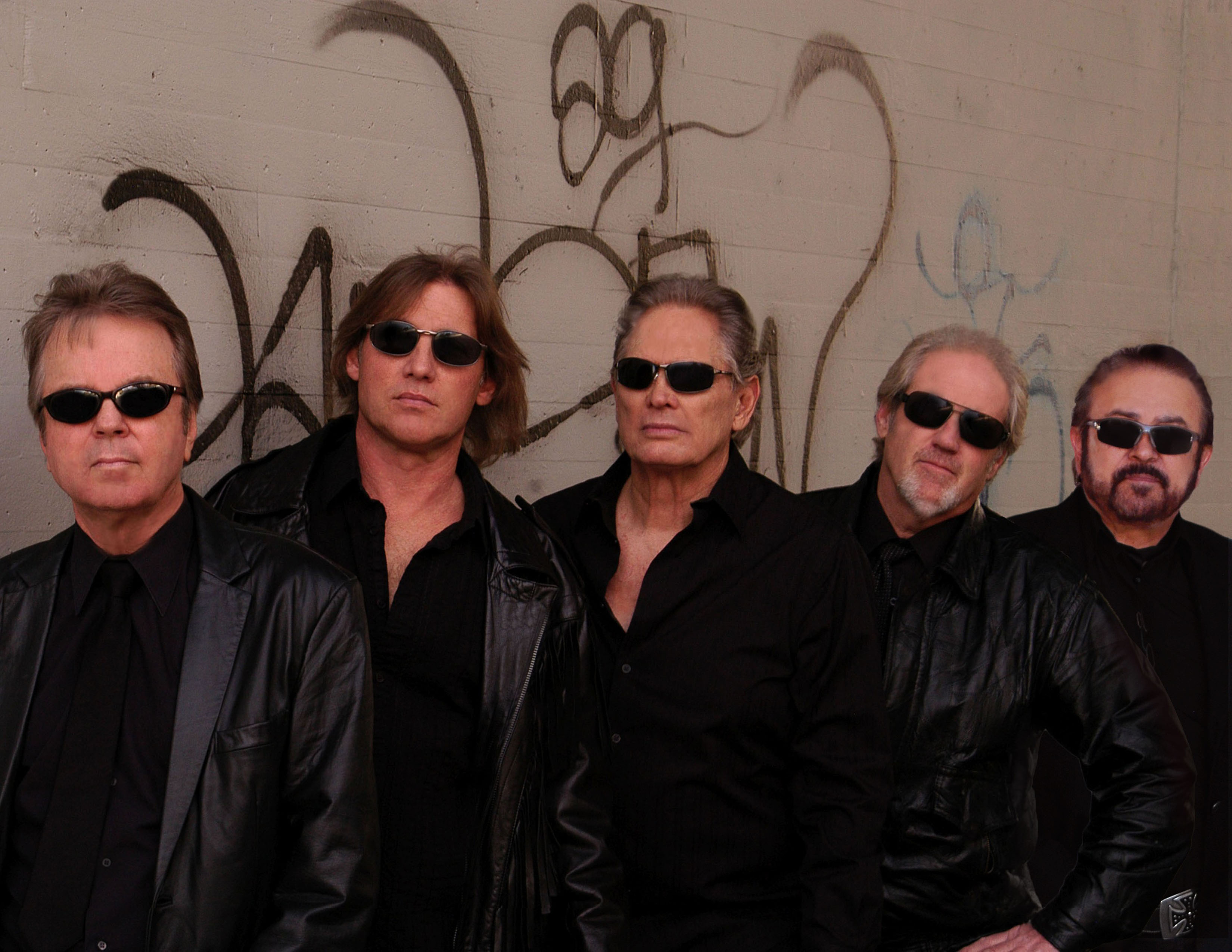 (L-R) Larry Tamblyn, Mark Adrian, John (Fleck) Fleckenstein, Greg Burnham, Dick Dodd.